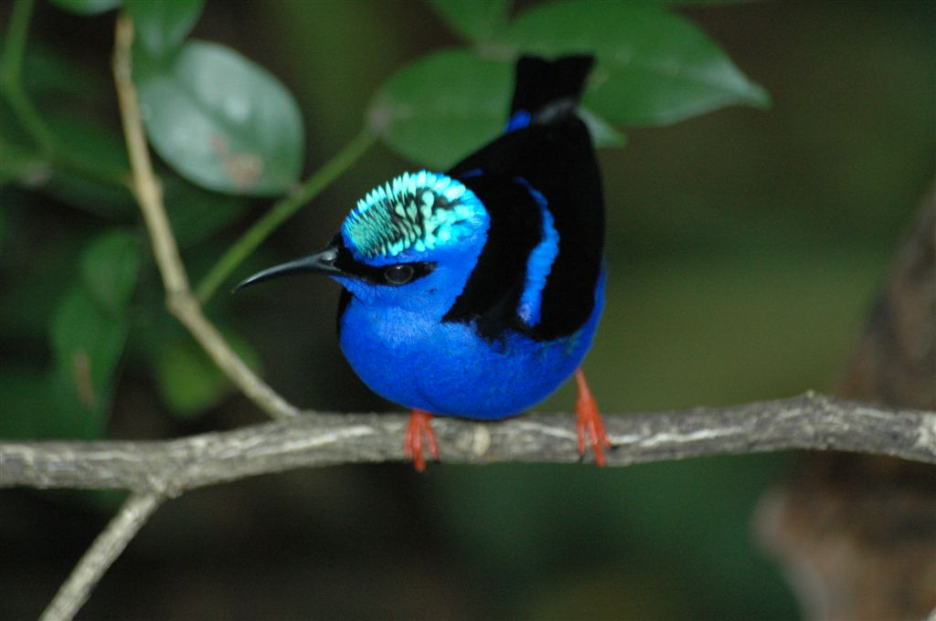 Red-legged Honeycreeper Cyanerpes cyaneus